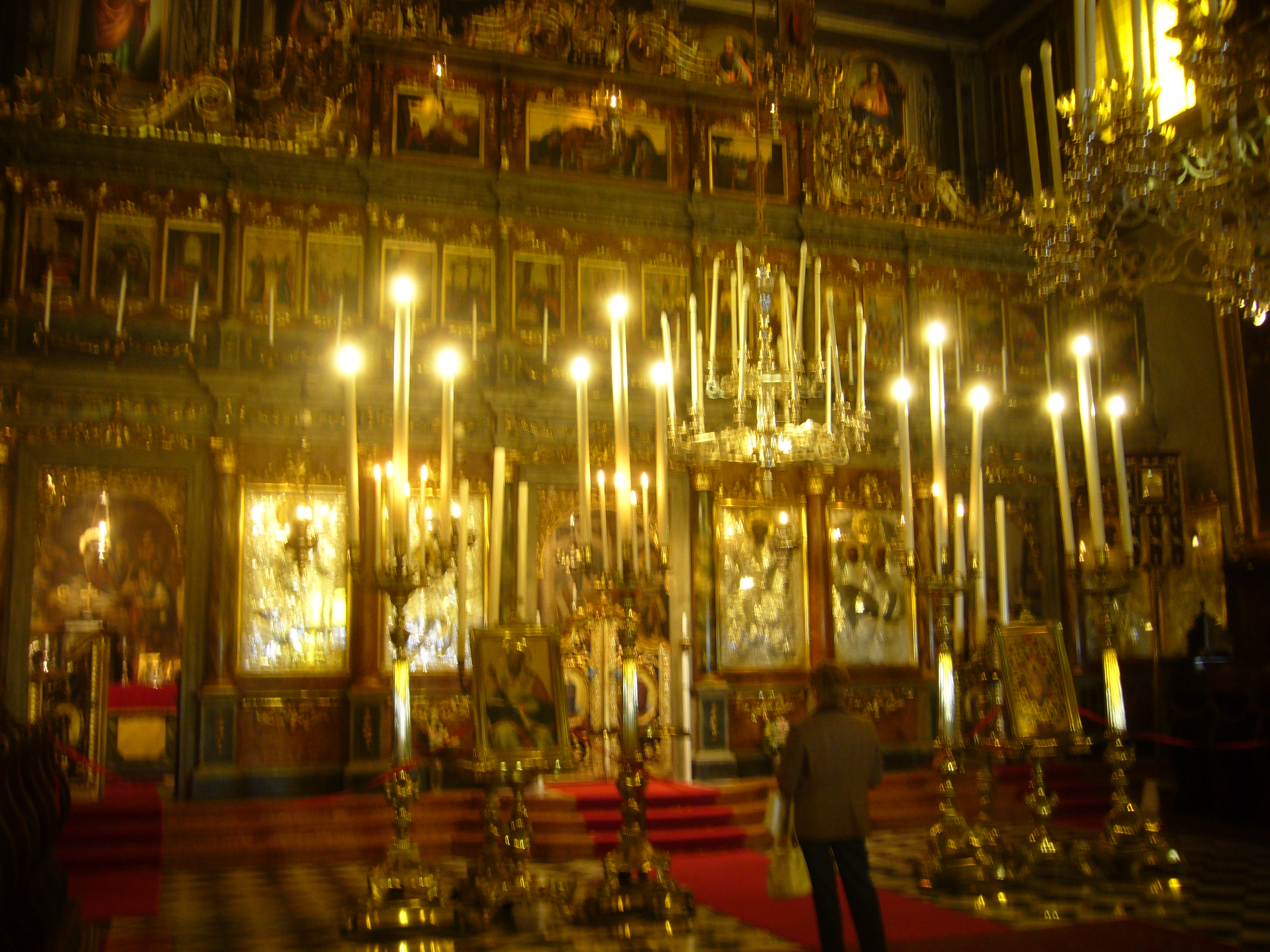 San Nicoló {Greek orthodox) church in Triëst